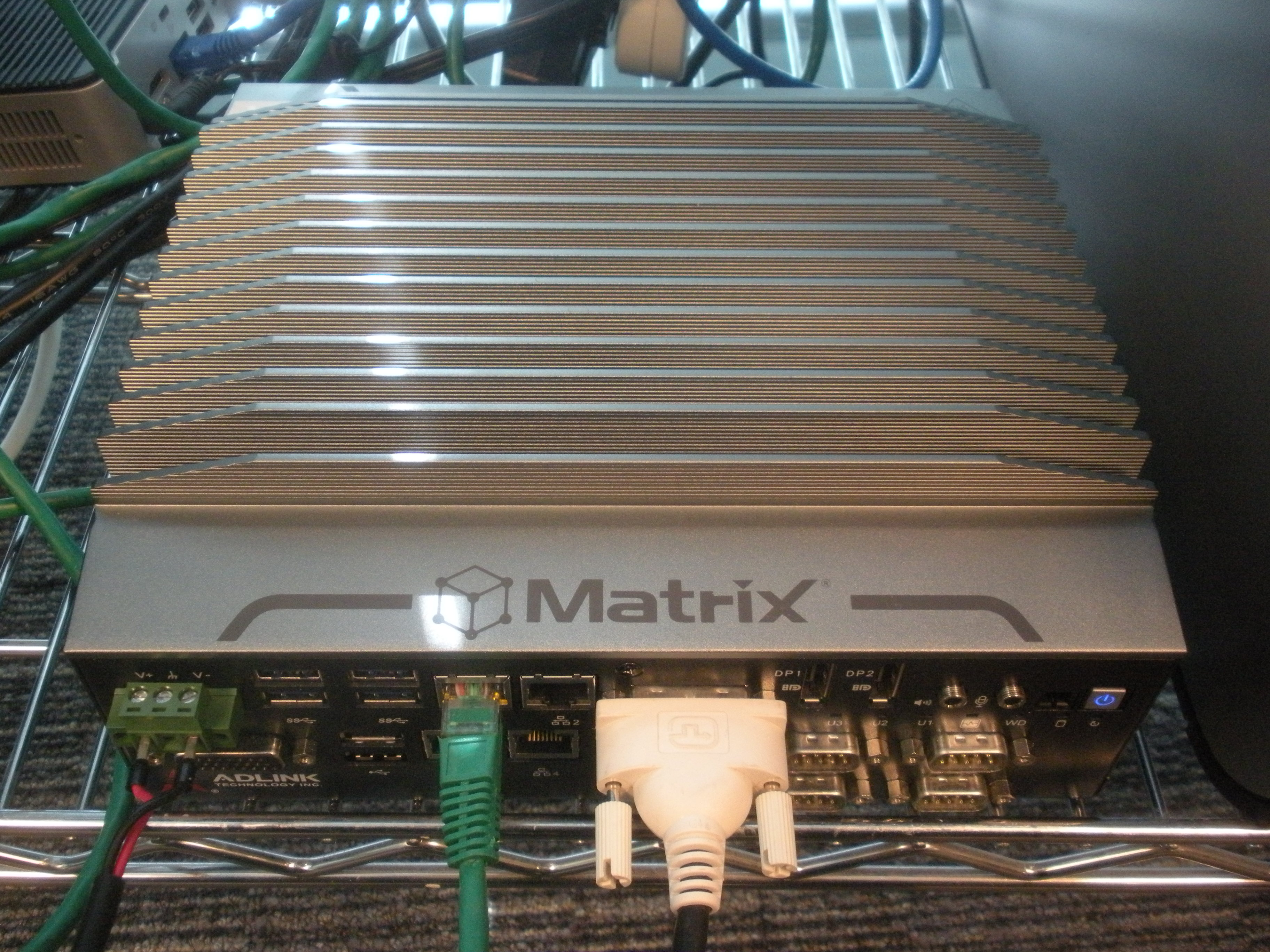 An ADLINK MXE-5501 fanless embedded computer. Originally posted to my Flickr